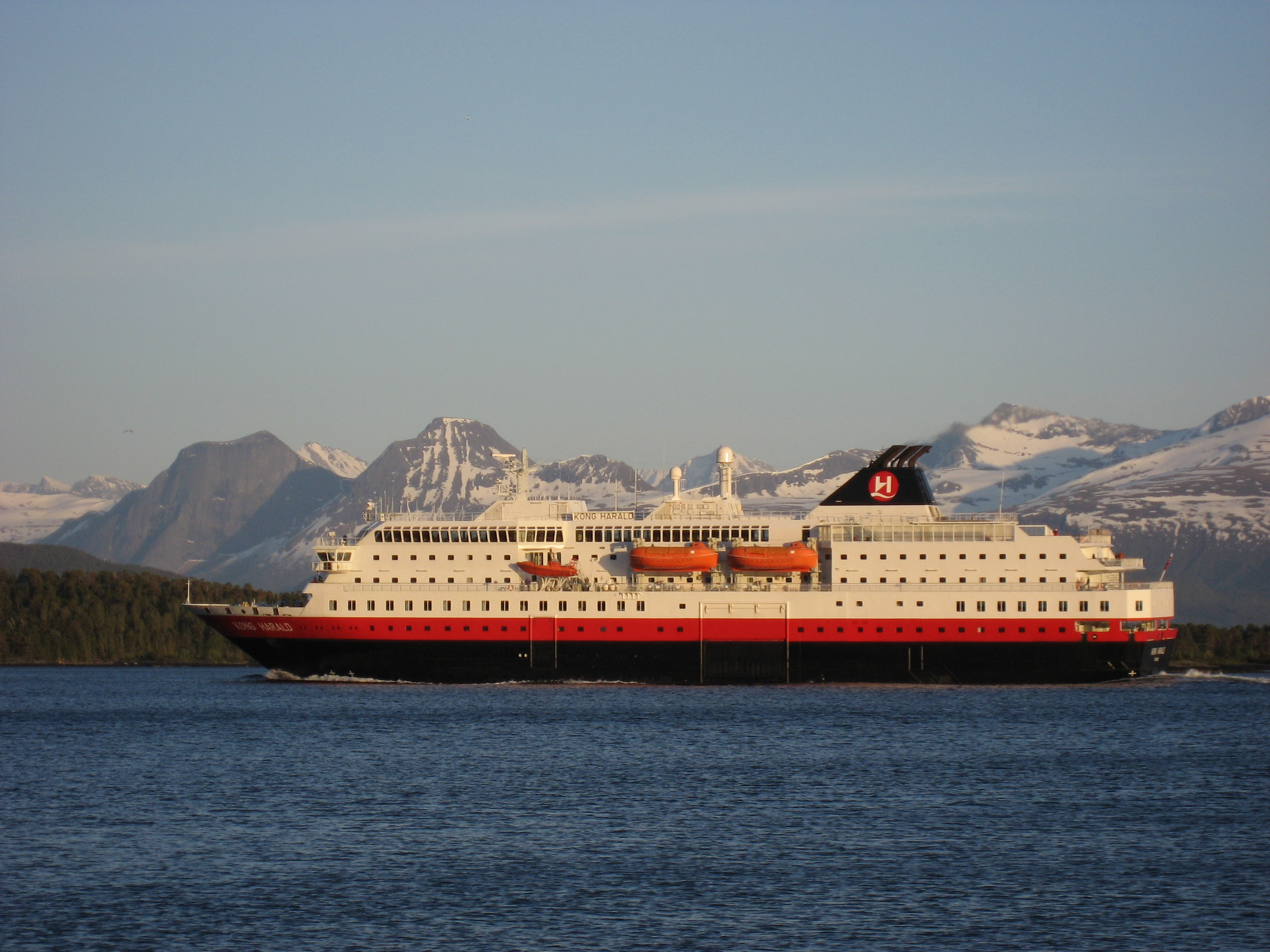 Coastal steamer ship (Hurtigruten) MS Kong Harald in Moldefjorden, Norway.